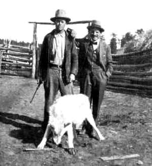 Harry Percival Williams posing with the mounted carcass of the notorious "Custer wolf"